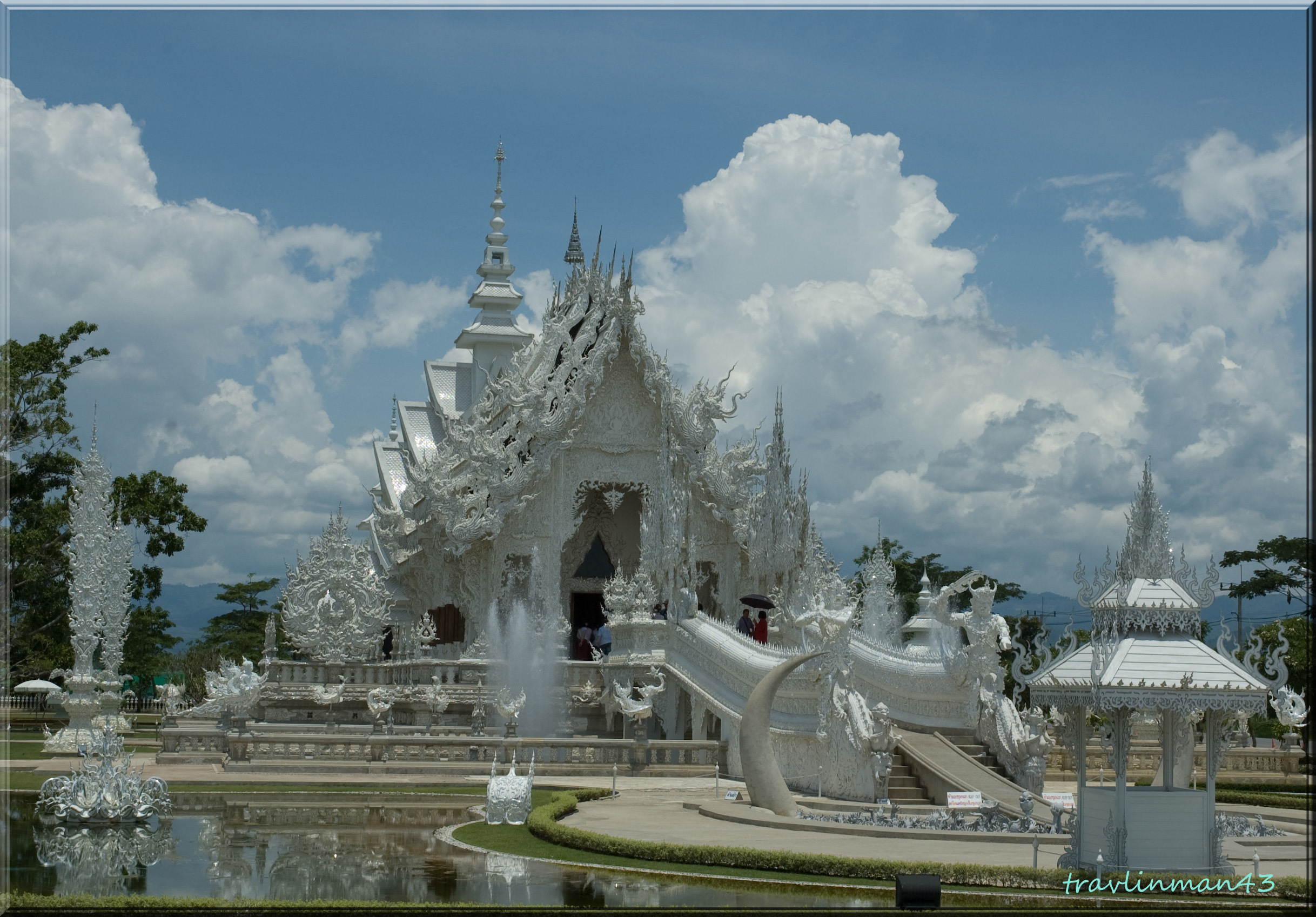 Wat Rong Khun, located just south of Chiang Rai Thailand.